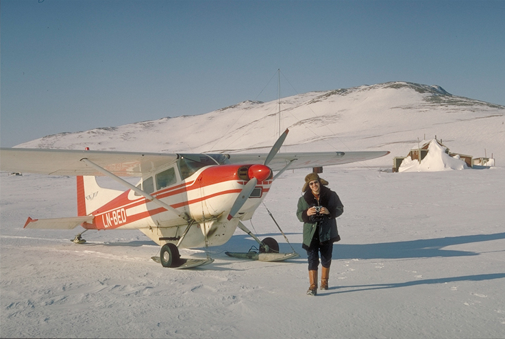 Cessna 185 fitted with ski mounts parked on the snow in front of the old Norwegian fishing and telegraph station in Myggbukta, Myggebugten.